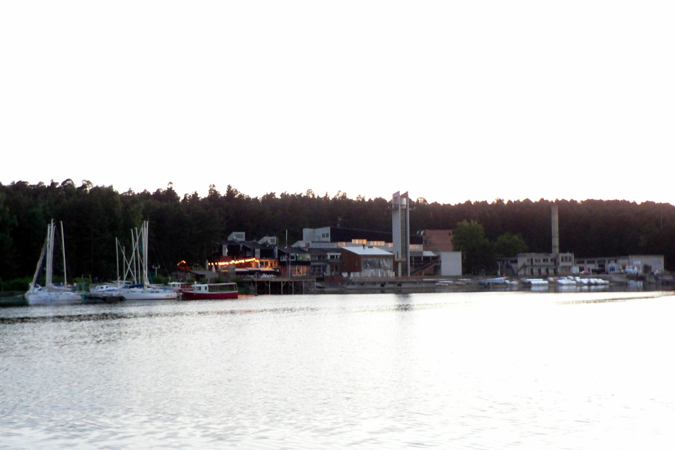 Kaunas Yacht Club seen from Kaunas Lagoon, Lithuania.